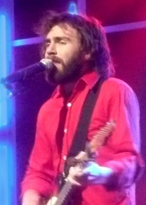 Musician Liam Finn